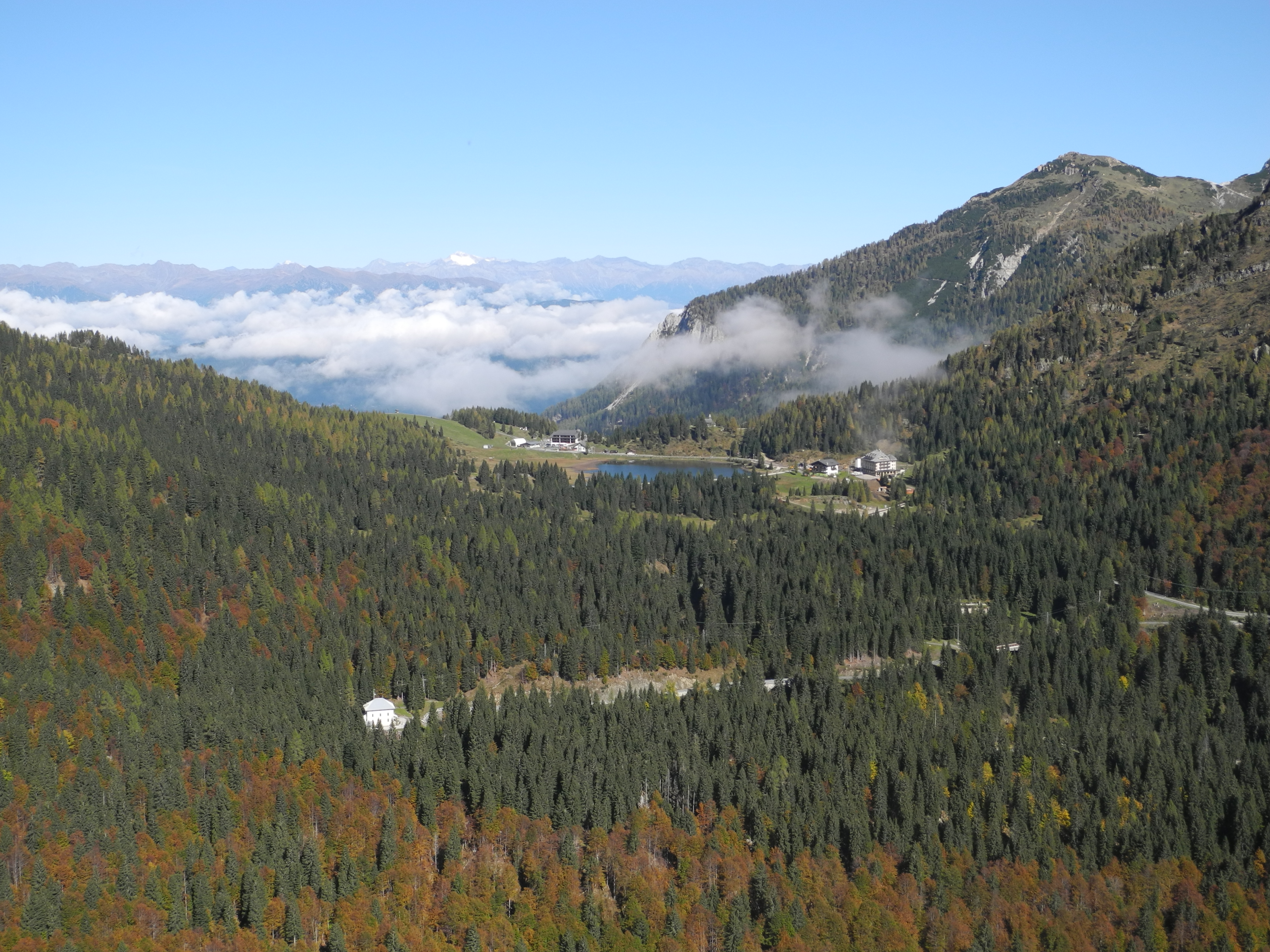 Passo Pramollo - Nassfeldpass, Italy/Austria